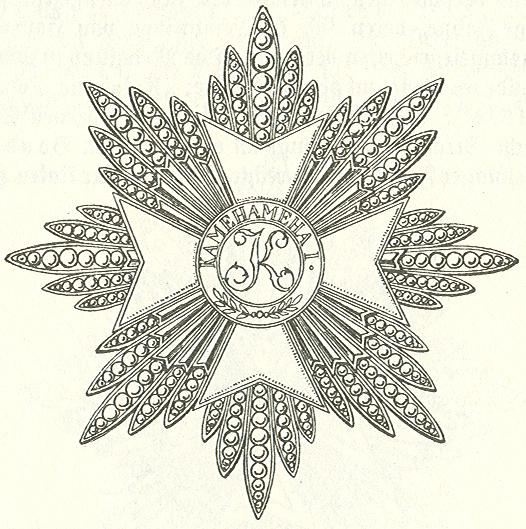 Star of the Order of Kamehameha I.